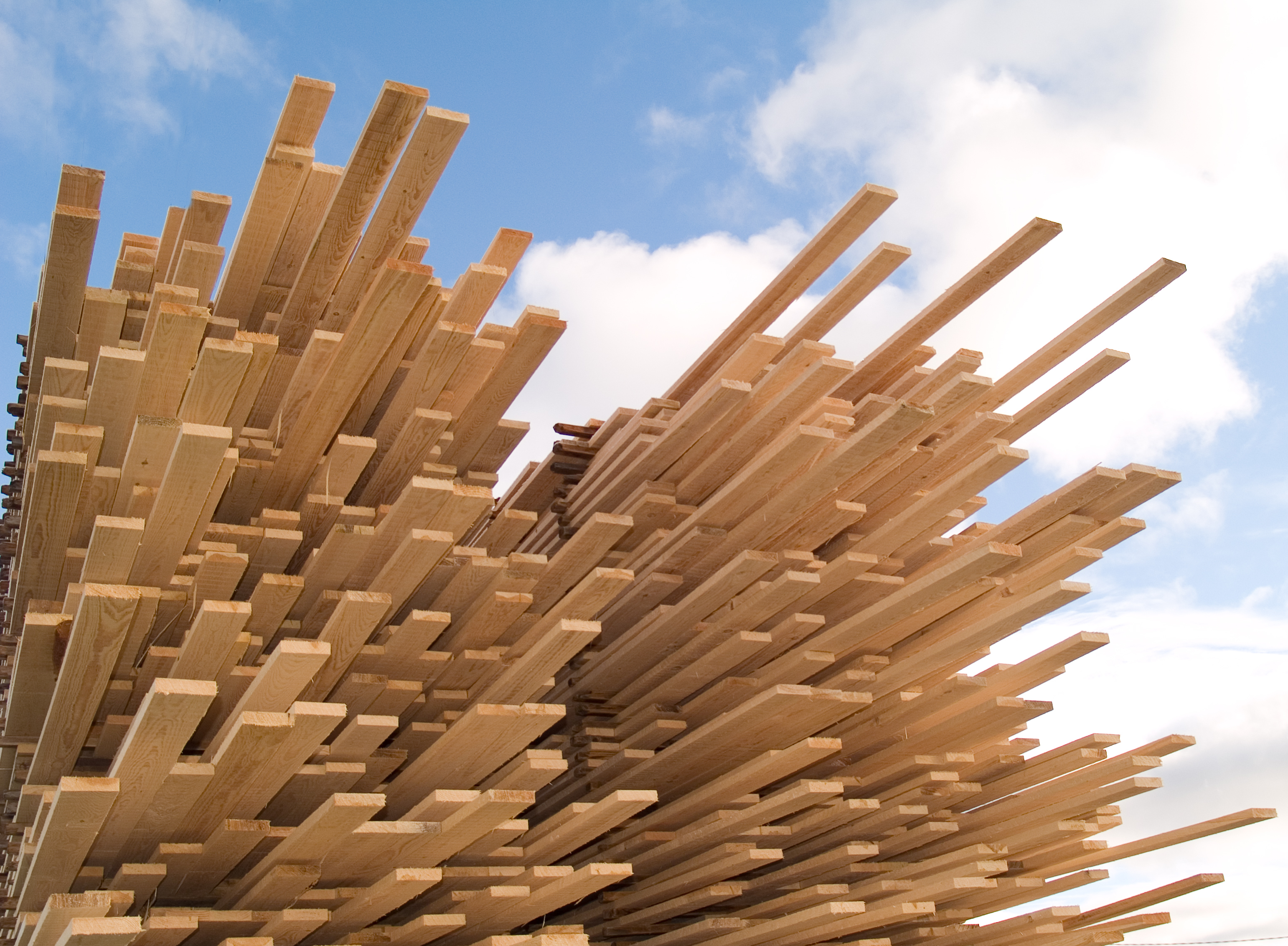 Sawn timber at a sawmill in Southern Ostrobothnia, Finland, summer 2013.